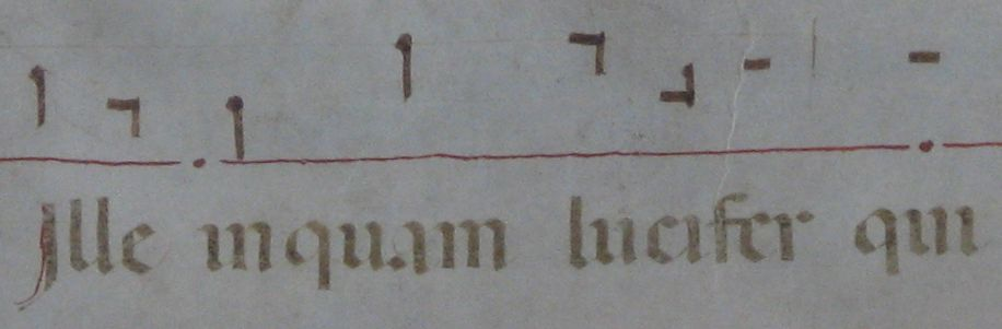 short photograph extract on how religious music was written in Europe up to the XIIIth century, without any line.